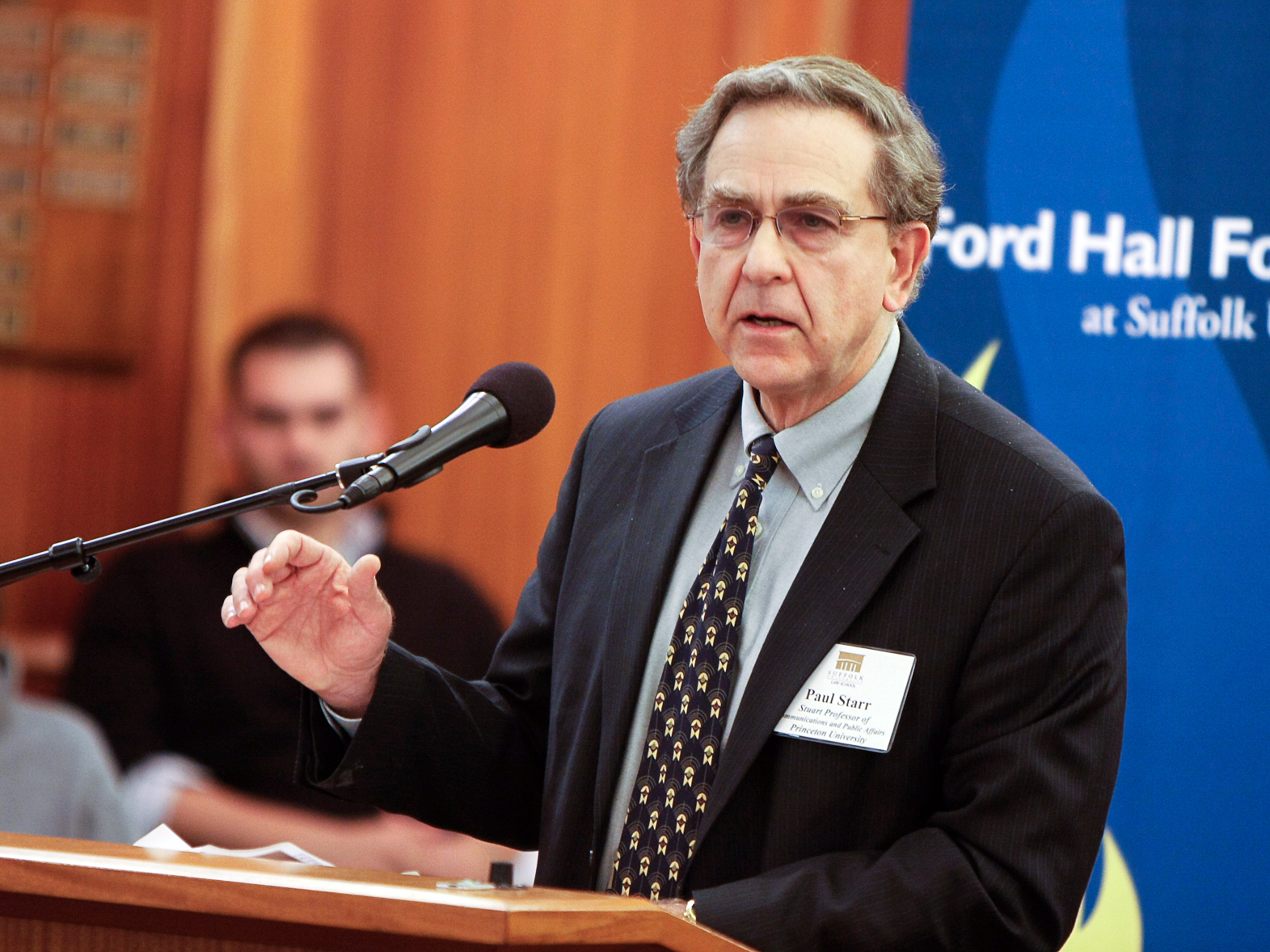 Professor Paul Starr gives a lecture at the Rappaport Center for Law and Public Service, Suffolk University Law School, on 1 October 2009.